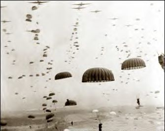 82nd Airborne Division during Market Garden